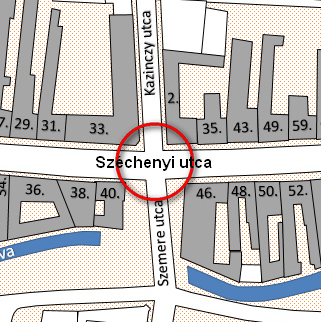 Villanyrendőr. Intersection (Széchenyi Street and Kazinczy/Szemere Street) in Miskolc, Hungary